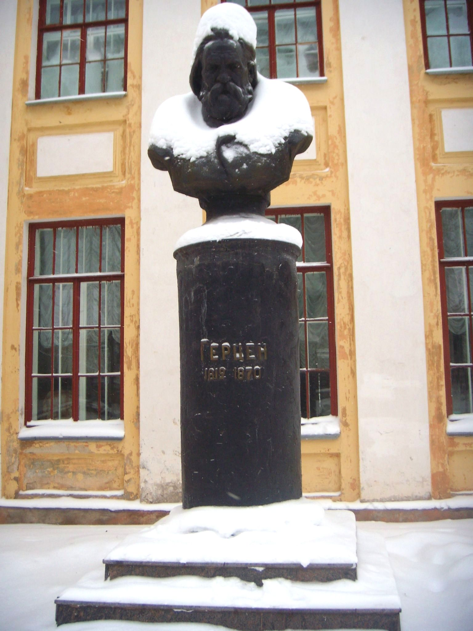 Herzen monument at the entrance of the Library of Herzen. Kirov, Russia.